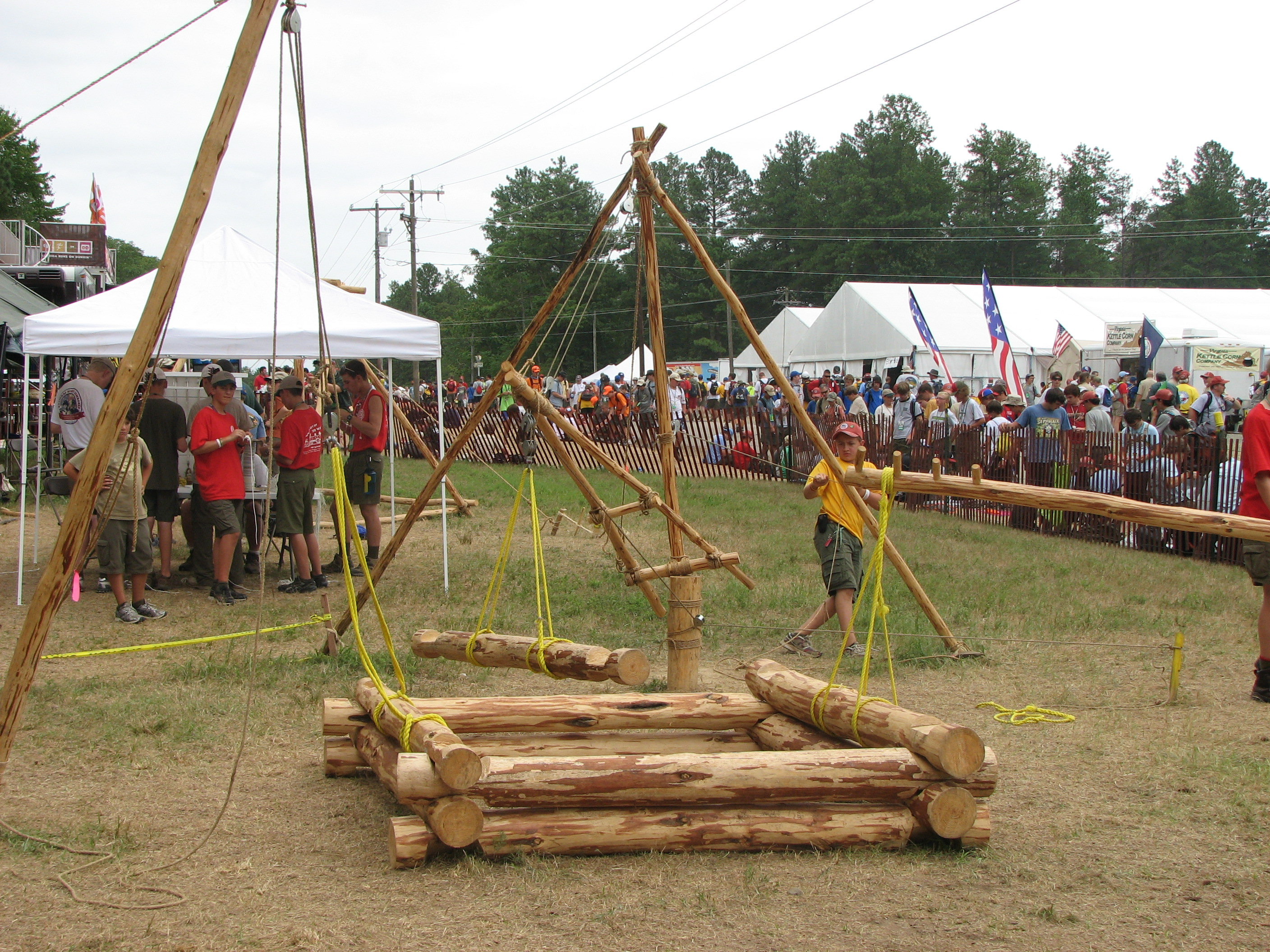 An advanced pioneering project on display at Action Center "B"'s pioneering area at the 2010 National Scout Jamboree.